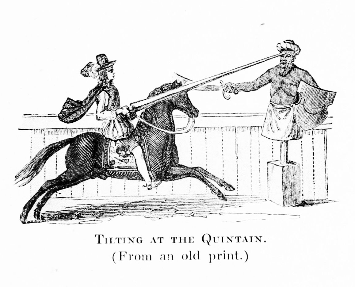 Tilting at the Quintain. (From an old print.); /295The Elizabethan People